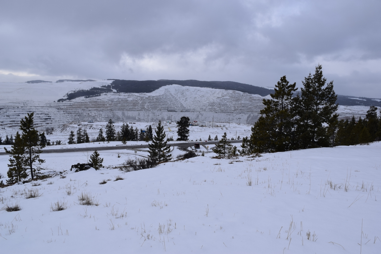 Highland Valley Copper Mine, Logan Lake, BC, Canada